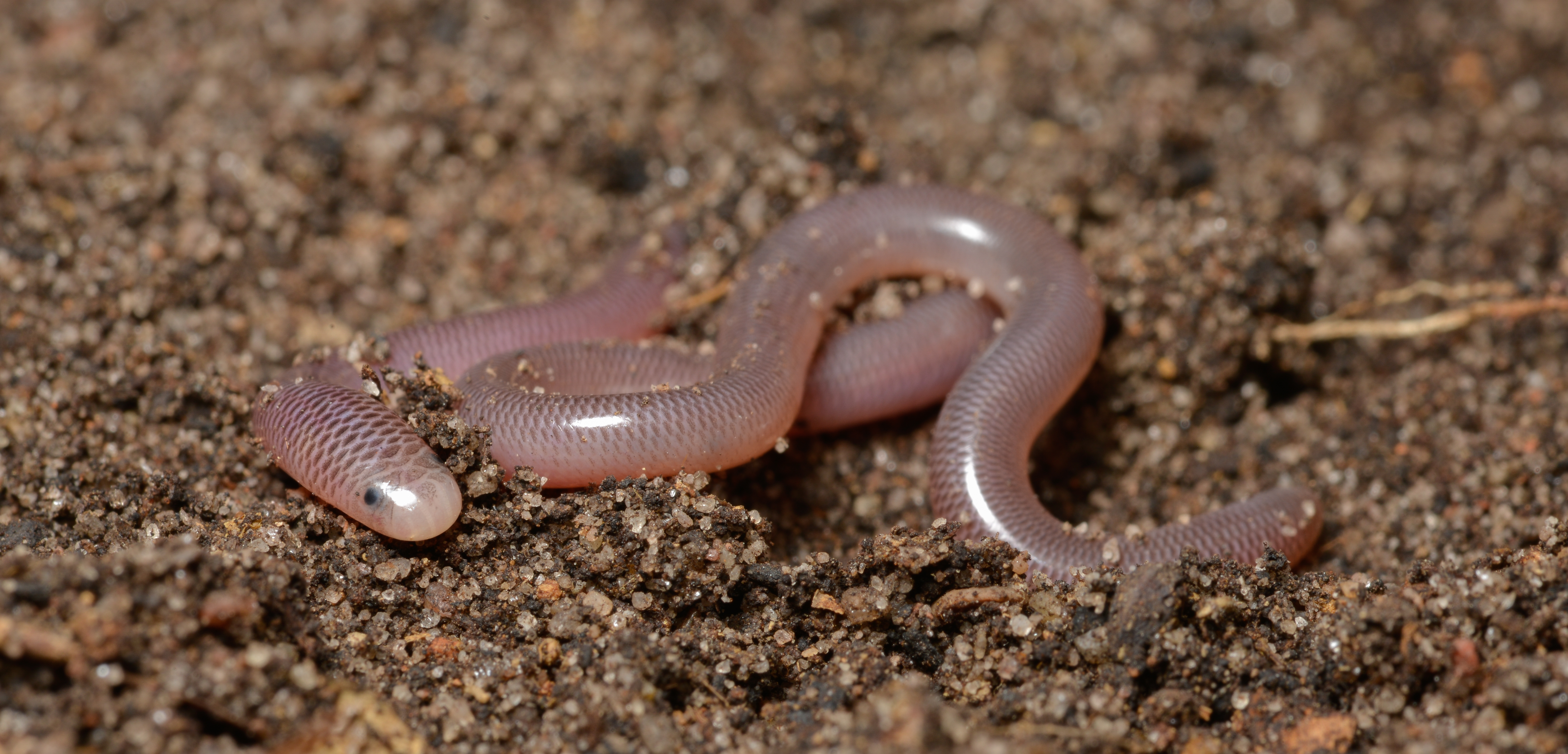 Brown-snouted Blind Snake (Ramphotyphlops wiedii or nirgrogrescens) 3